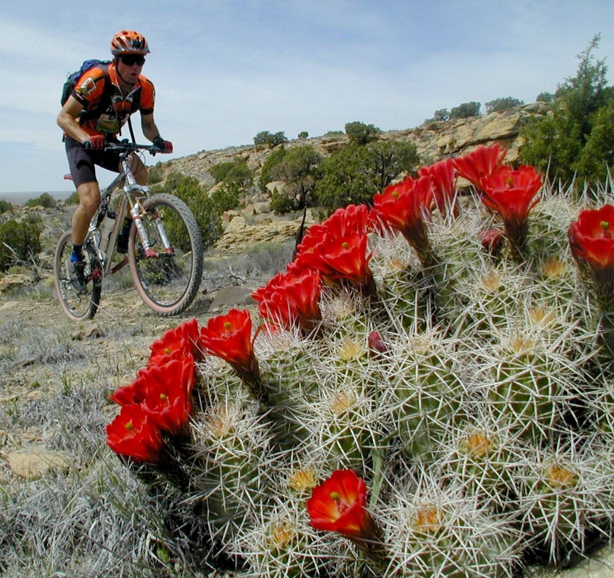 Located in the high desert canyon country of western Colorado and eastern Utah, McInnis Canyons National Conservation Area consists of approximately 123,430 acres of BLM-administered land near Grand Junction, Colorado. Among its unique natural resources are the more than 75,000 acres of the Black Ridge Canyons Wilderness, which includes the second-largest concentration of natural arches in North America. Internationally important fossils have been uncovered during more than a century of excavation. Pictograph and petroglyph sites abound, and the Old Spanish Trail, once referred to as the “longest, crookedest, most arduous mule route in the history of America,” runs through the NCA. Today, the NCA is a recreation destination, drawing visitors to the world-class mountain biking on Mack Ridge and along the 142-mile Kokopelli trail, which extends to Moab, Utah. Twenty-five miles of the Colorado River wind their way through the NCA, attracting boaters who value straightforward floating through spectacular multi-hued sandstone canyons. For more information visit:: Photo: Bob Wick, BLM California